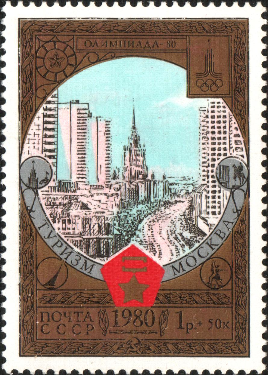 USSR stamp